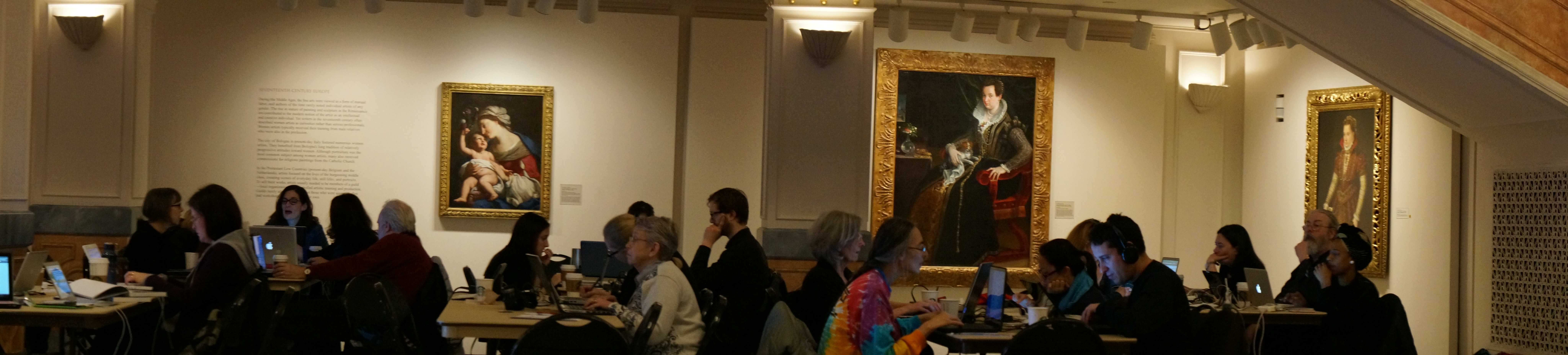 This photograph is part of a series of photographs created by User:Geraldshields11 on 30 March 2014 in the National Museum of Women in the Arts in Washington, District of Columbia, as part of Women in Wikipedia and US Women's History Month.